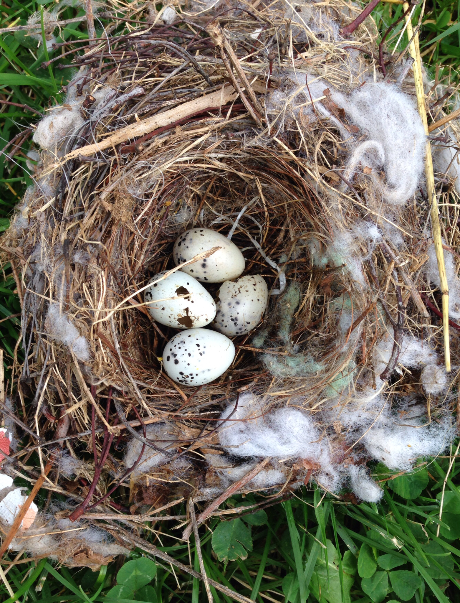 Cedar Waxwing nest unfortunately found on the ground.